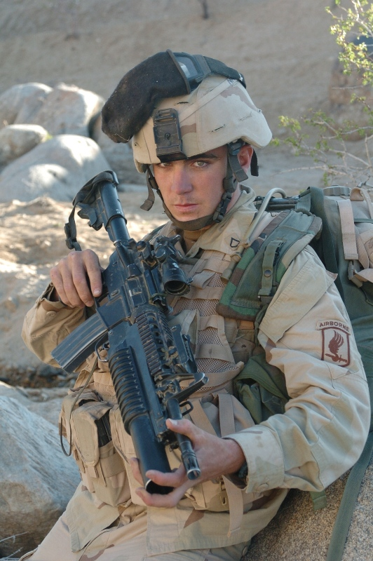 A United States Army private first class from the 173rd Airborne Brigade Combat Team (United States) at Afghanistan